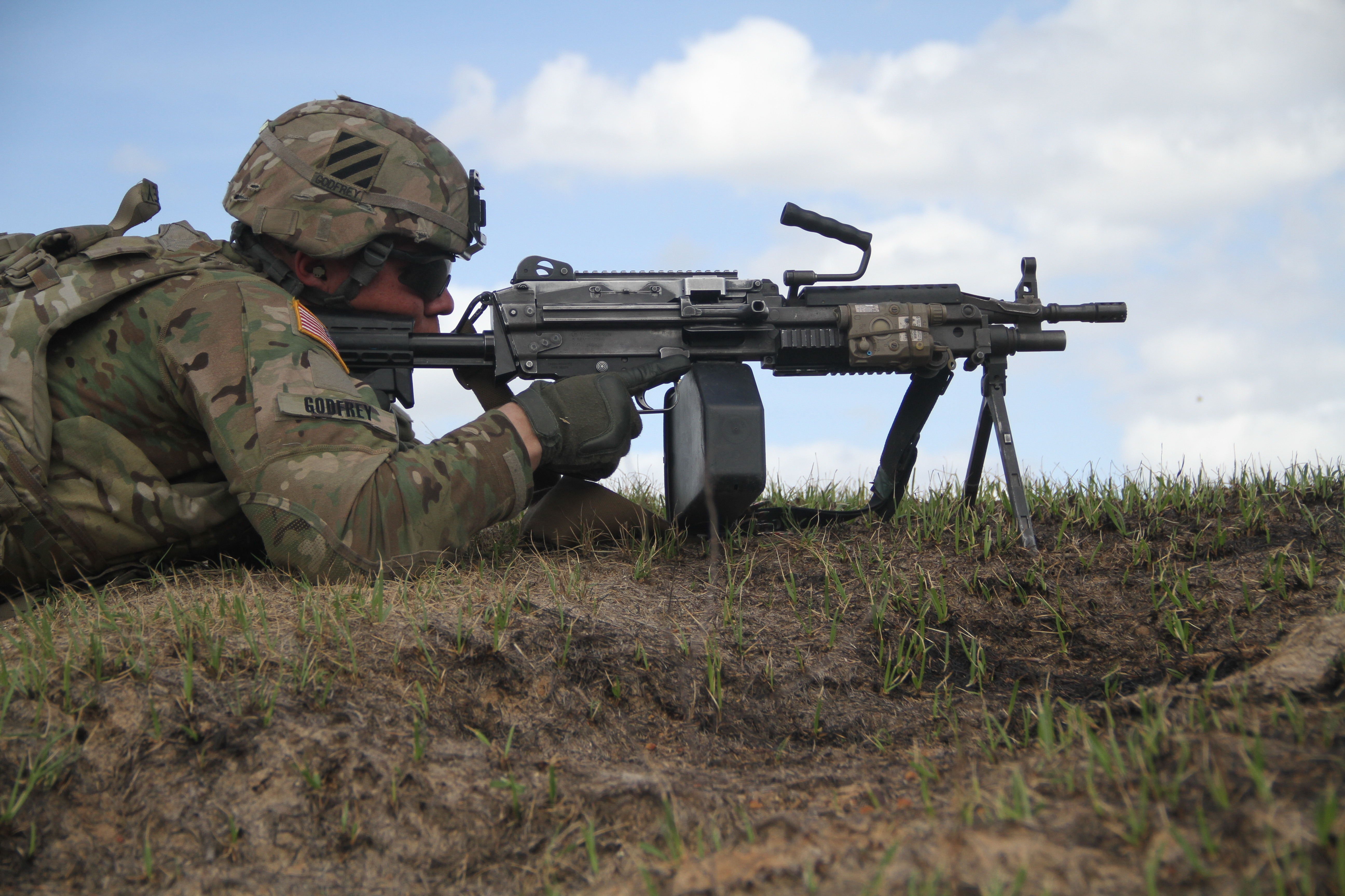 A Soldier with Company B, 2nd Battalion, 7th Infantry Regiment, 1st Armored Brigade Combat Team, 3rd Infantry Division pulls security with an M249 squad automatic weapon machine gun, at Fort Stewart, Ga., March 10, 2016. The Soldier pulls security to oversee his squad’s safety during Battle Focus, a battalion-level training exercise hosted by 1st Battalion, 30th Infantry Regiment, 2nd Infantry Brigade Combat Team, 3rd ID. (U.S. Army photo by Pfc. Payton Wilson) Unit: 2nd Brigade Combat Team, 3rd Infantry Division Public Affairs